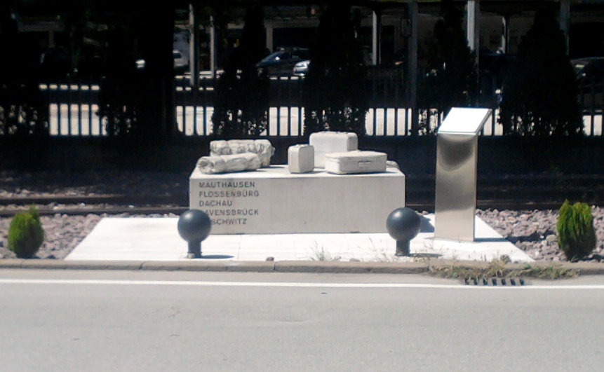 One of the three memorials to victims of Bolzano transit camp by Christine Tschager